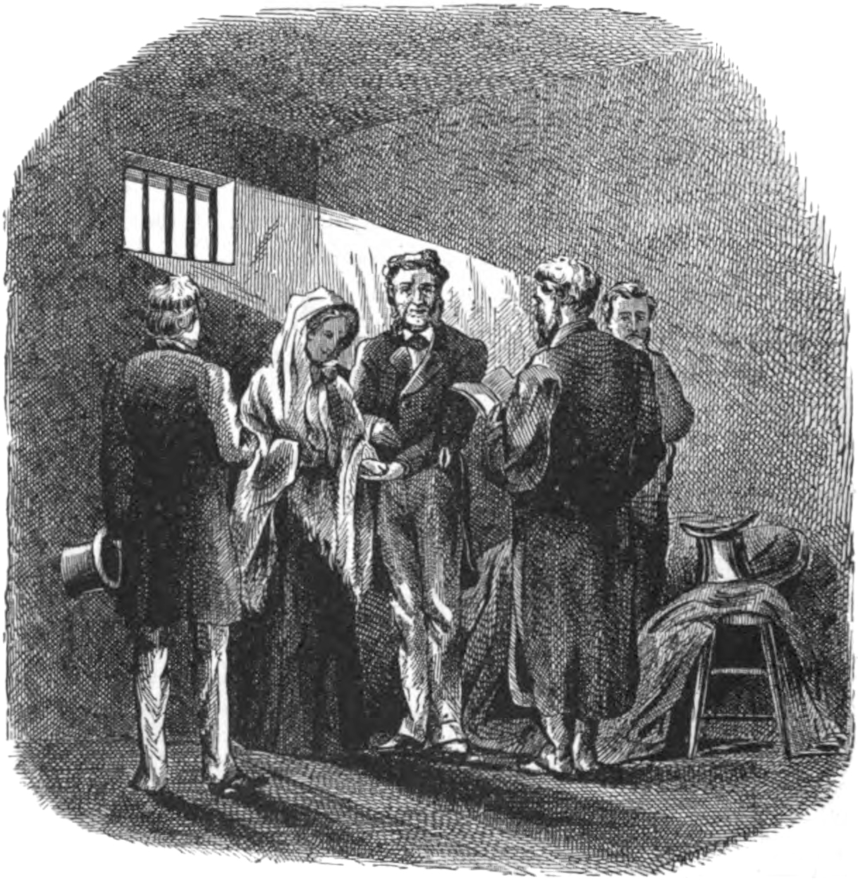 Wedding of John Colt in Tombs prison Manhattan from The New York Tombs: its secrets and its mysteries. Being a history of noted criminals, with narratives of their crimes by Charles Sutton (1874)